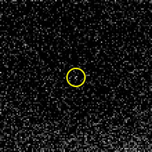 Composite of ten W4 band (22 μm wavelength range) observations of Saturn's moon Albiorix by the Wide-Field Infrared Survey Explorer (WISE) from (2010-06-12 10:58:07 UT) to (2010-06-13 10:46:54 UT). These images were processed from archival WISE data provided by the IRSA.